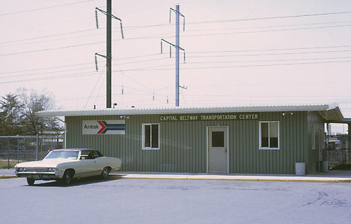 Capital Beltway station in April 1972